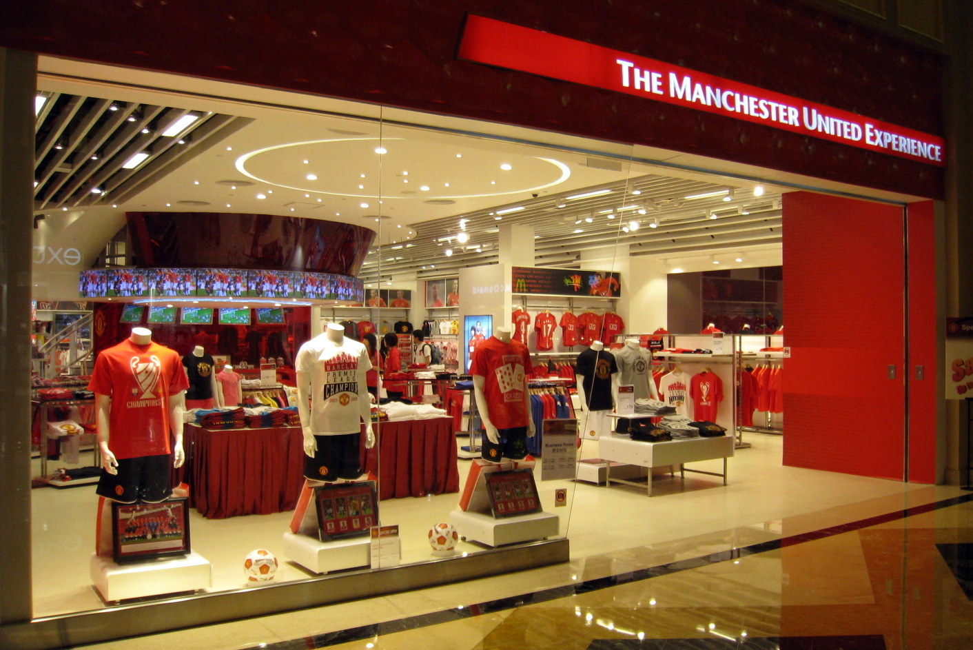 The Manchester United Experience Macau Store 威尼斯人澳門曼聯旗艦店